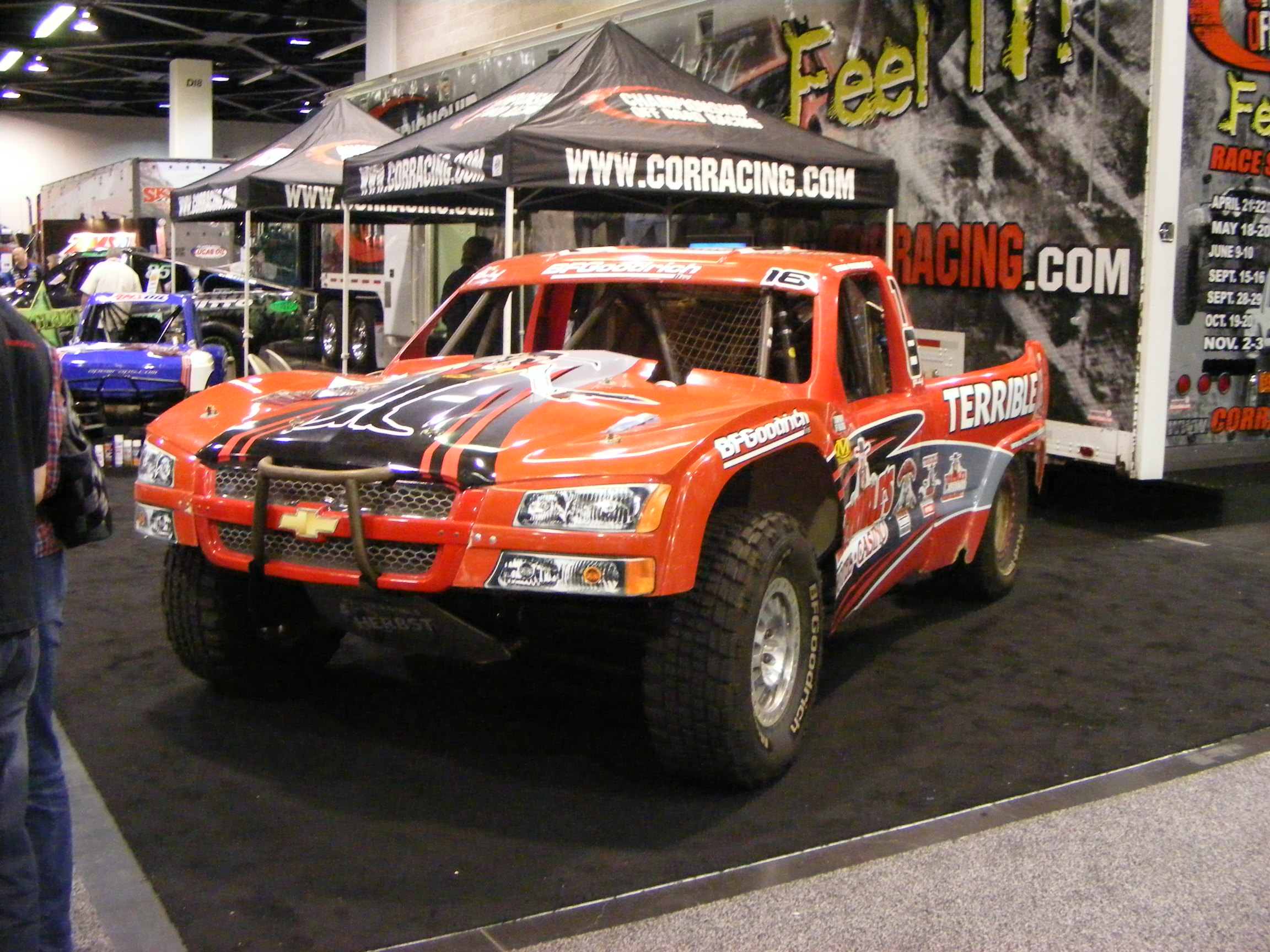 A team Herbst CORR Series Pro-4 at the CORR Racing booth